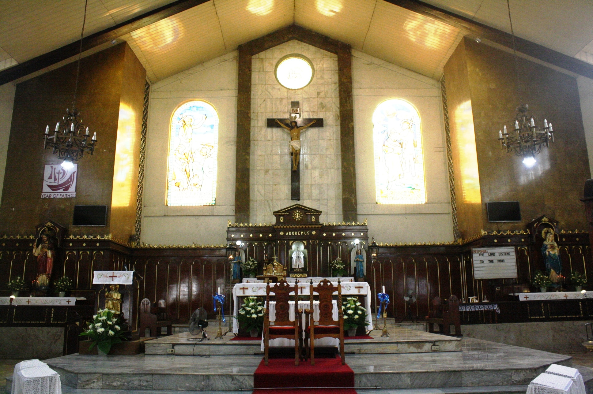 The high altar within the western sanctuary of the church. A freestanding altar stands before it on a platform that extends into the main nave. A pair of chairs and a double-wide prie-dieux before the altar indicates that a wedding is to take place.